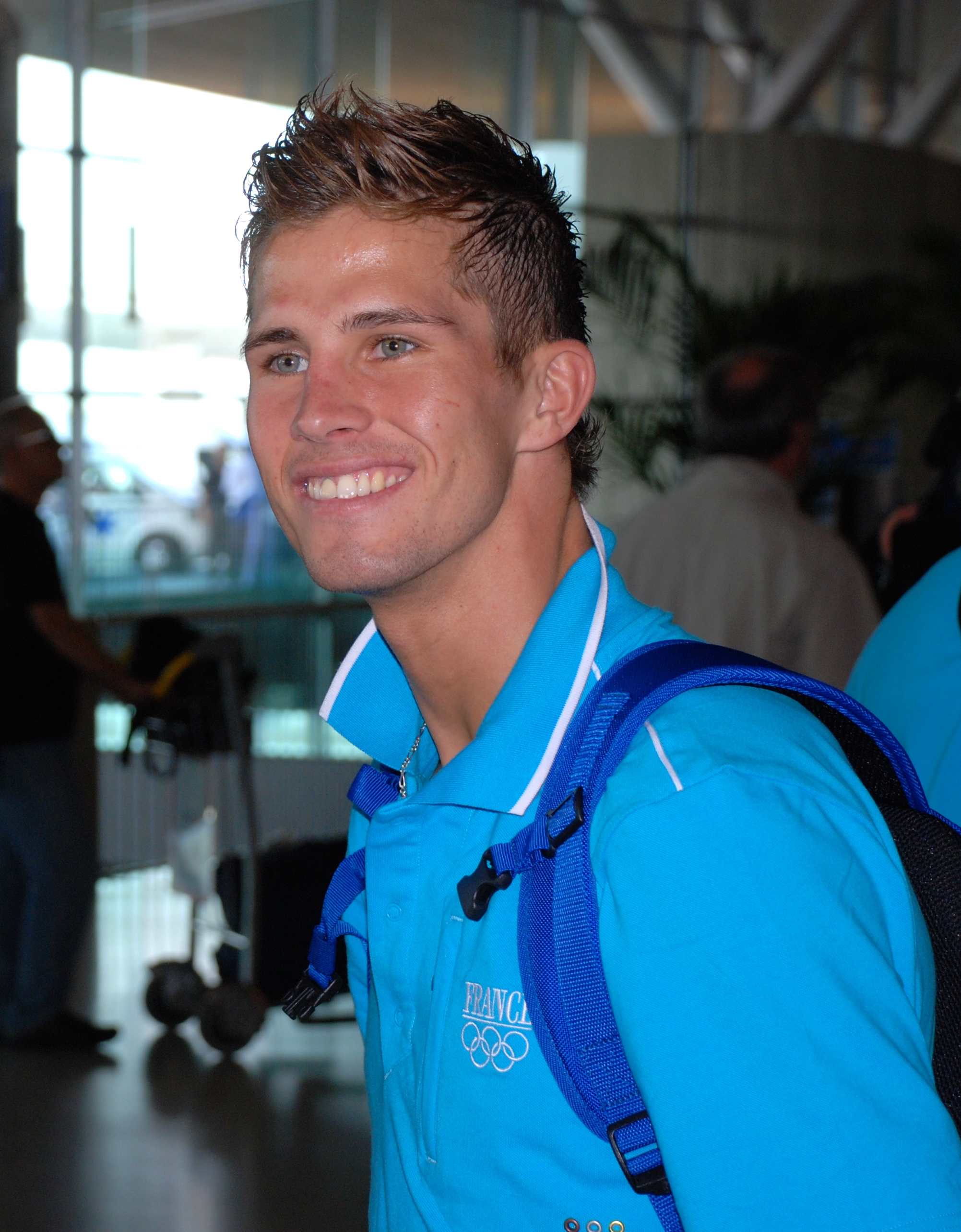 French boxer Alexis Vastine at the Beijing-Capital airport, July 25th 2008.